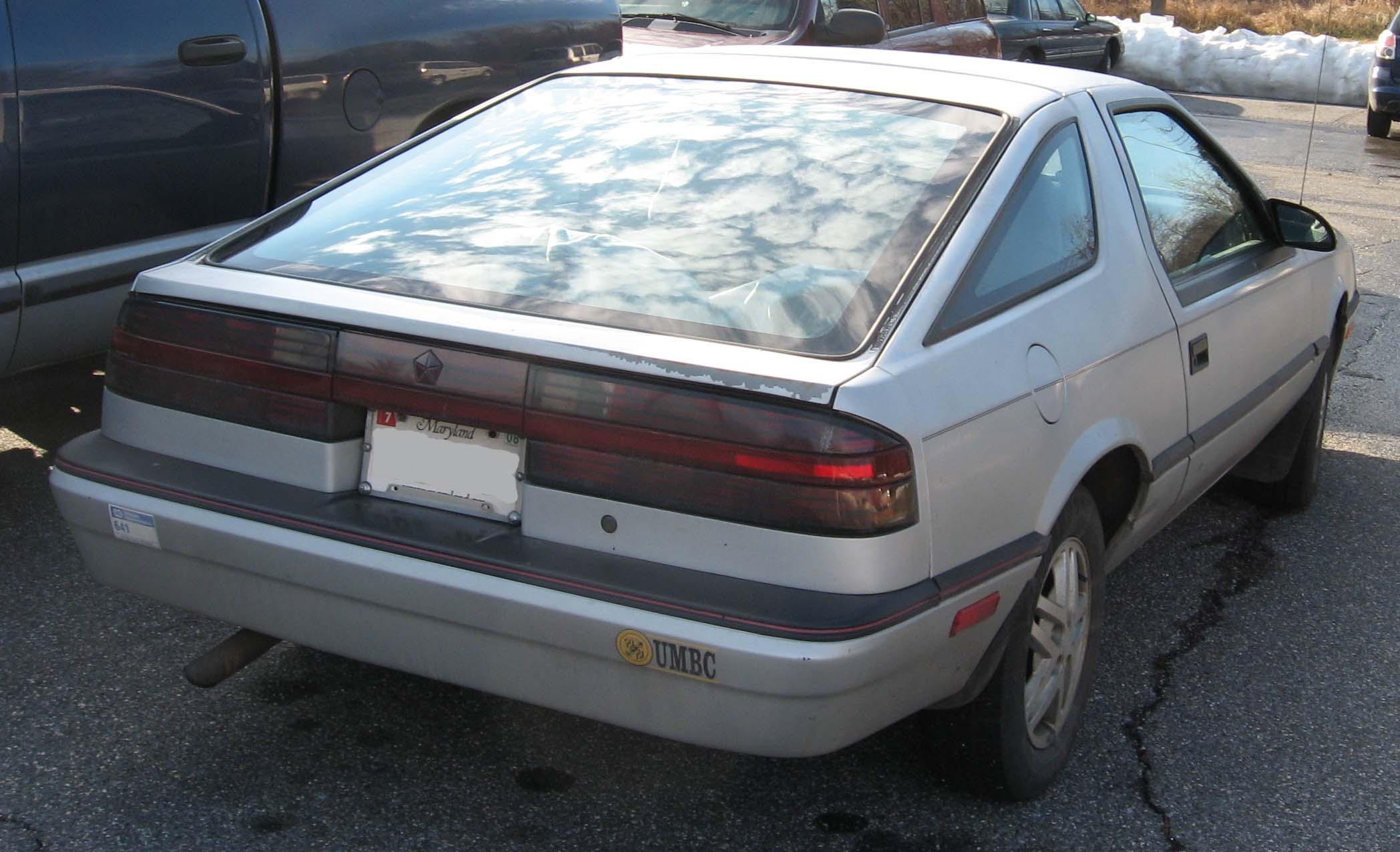 1987-1991 Dodge Daytona photographed in USA.